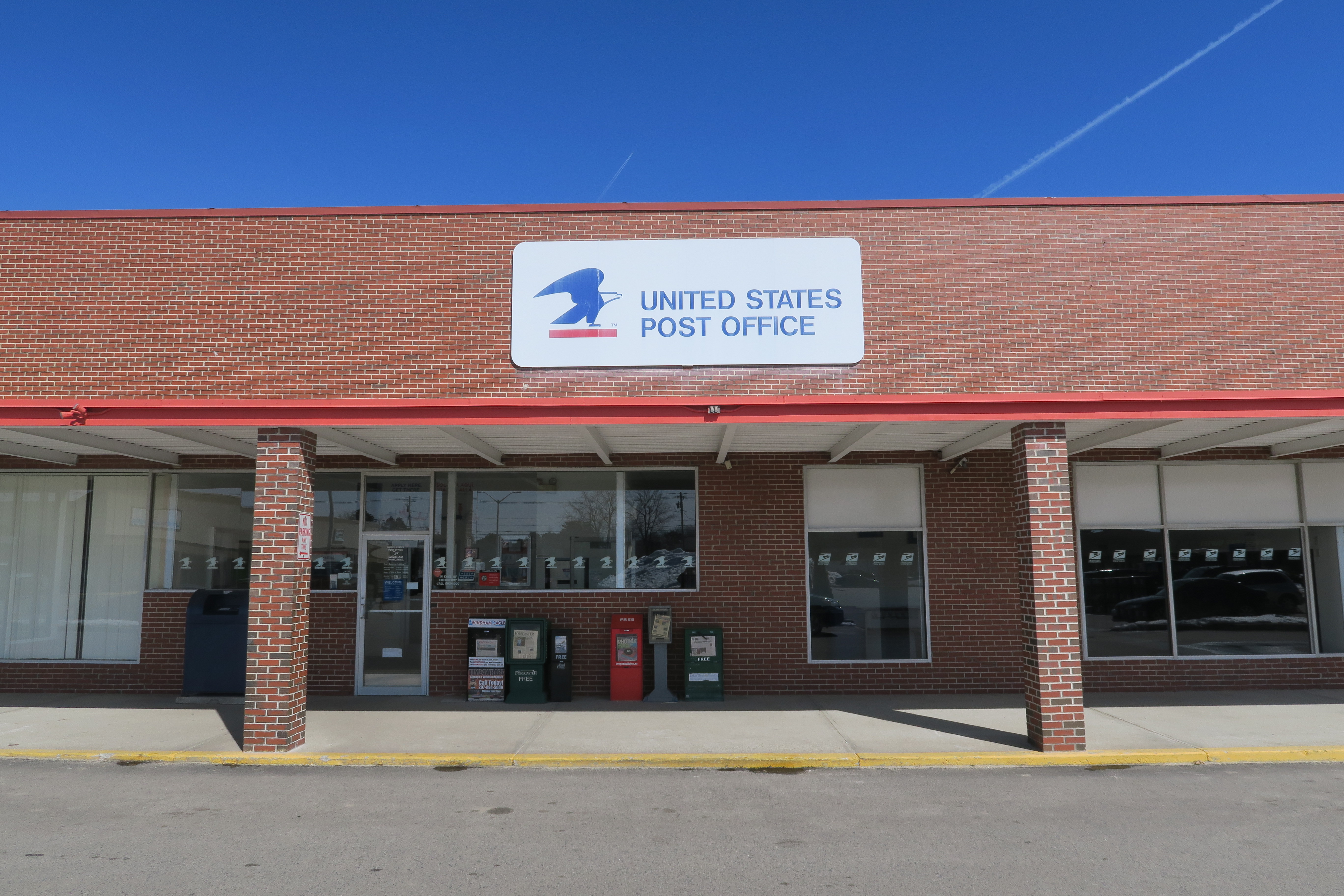 Post Office, North Windham Maine